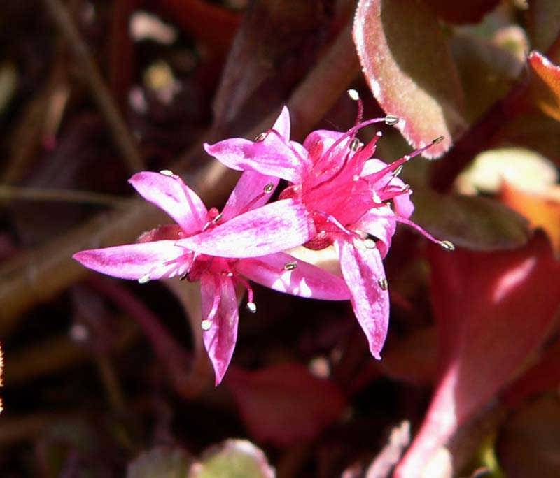 Photo of Sedum spurium 'Bronze Carpet' at the Desert Demonstration Garden in Las Vegas, Nevada